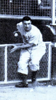 An image of Major League Baseball outfielder Al Gionfriddo.